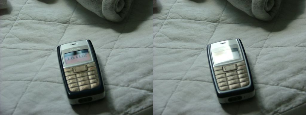 Effects of Polarizer filter on reflection